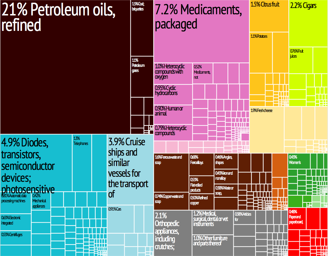 Cyprus Export Treemap from MIT Harvard Economic Observatory